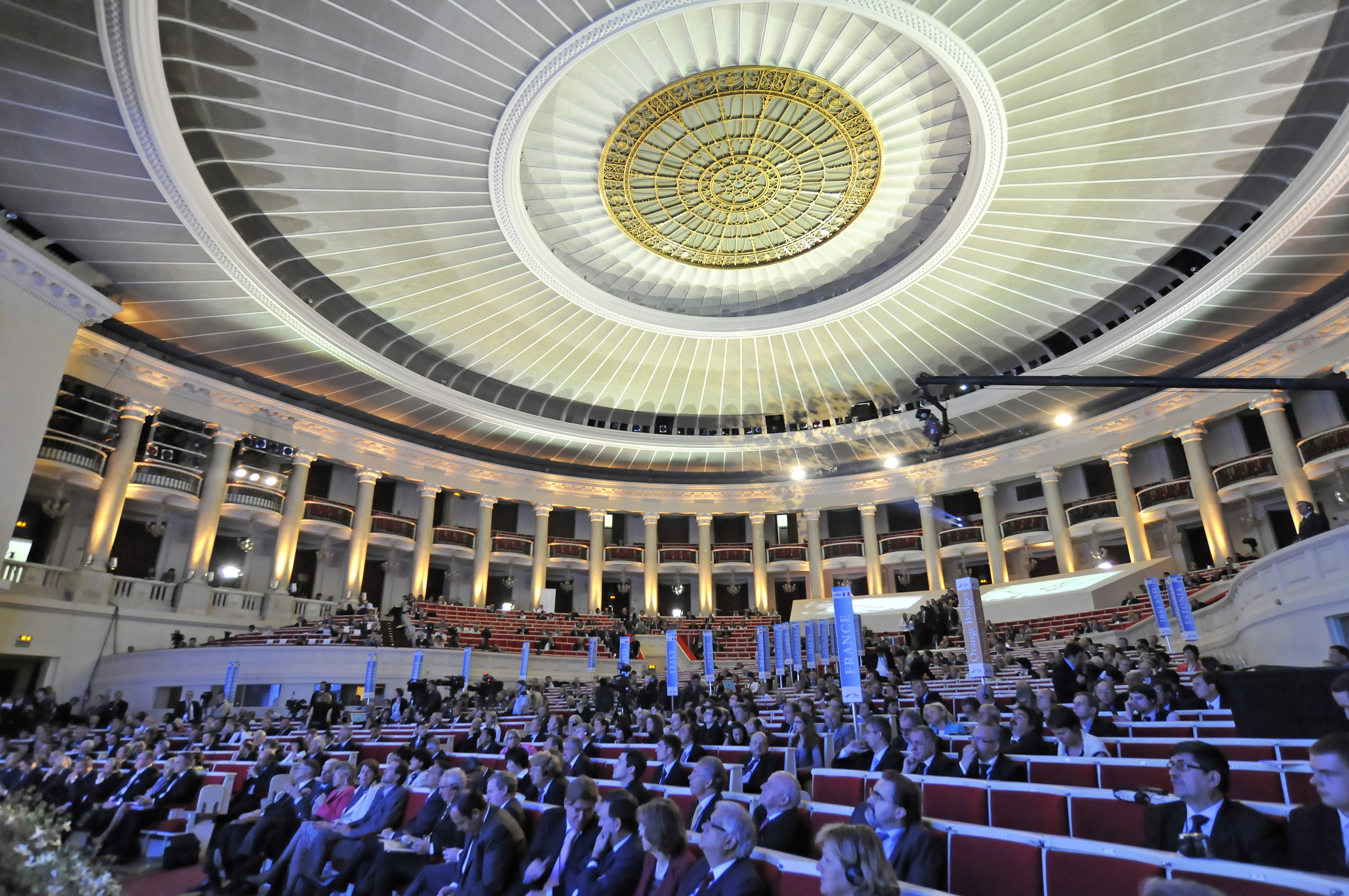 EPP Congress in Warsaw